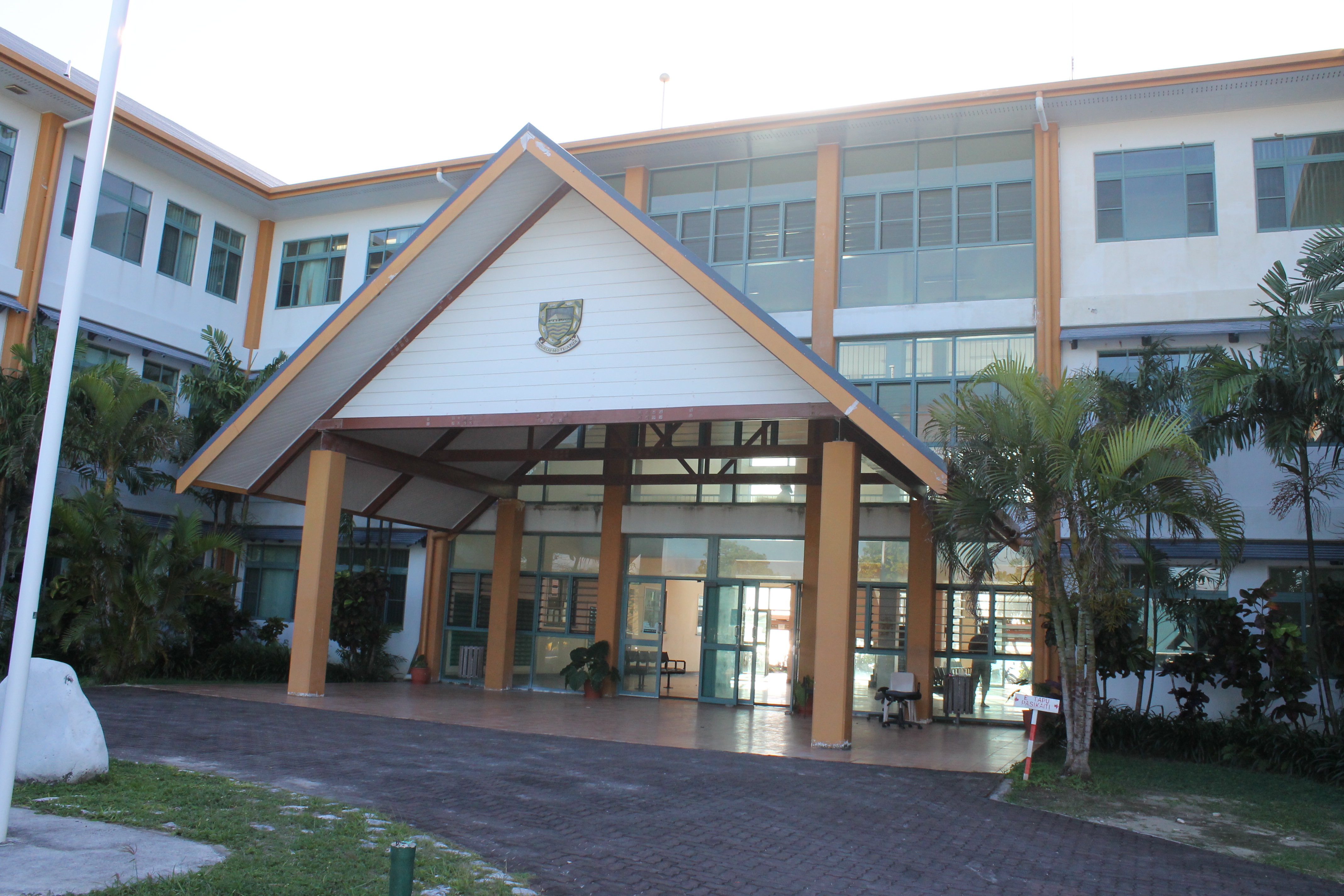 Government office building in FunafutiLëtzebuergesch: Gebai vun der Regierung vun Tuvalu zu Funafuti.